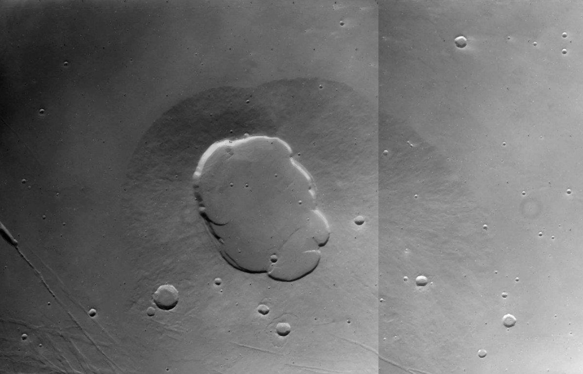 Uranius Mons on Mars. Mosaic of two Viking 1 images from camera B (857A44 and 857A46). Red filter was used for these images. Resolution is about 247 m/pixel. Despeckled, and contrast and brightness adjusted to create a more seamless image. Emission Angle: 8-11 Incidence Angle: 74.5 Latitude: -27.3 Longitude: 267.2 Phase Angle: 66.8